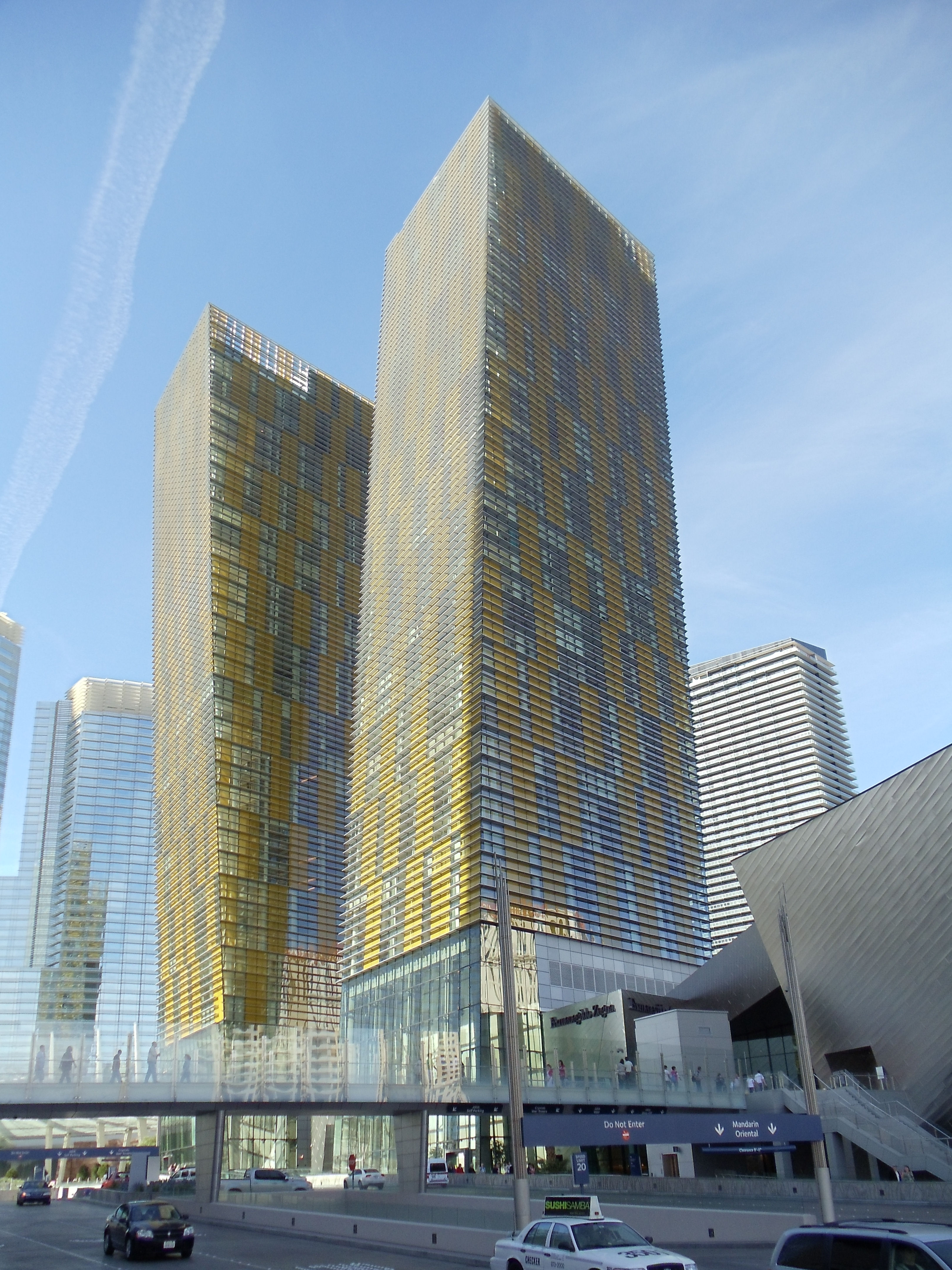 Veer Towers Residences, Las Vegas, Nevada, U.S Architectural design realized by Helmut Jahn